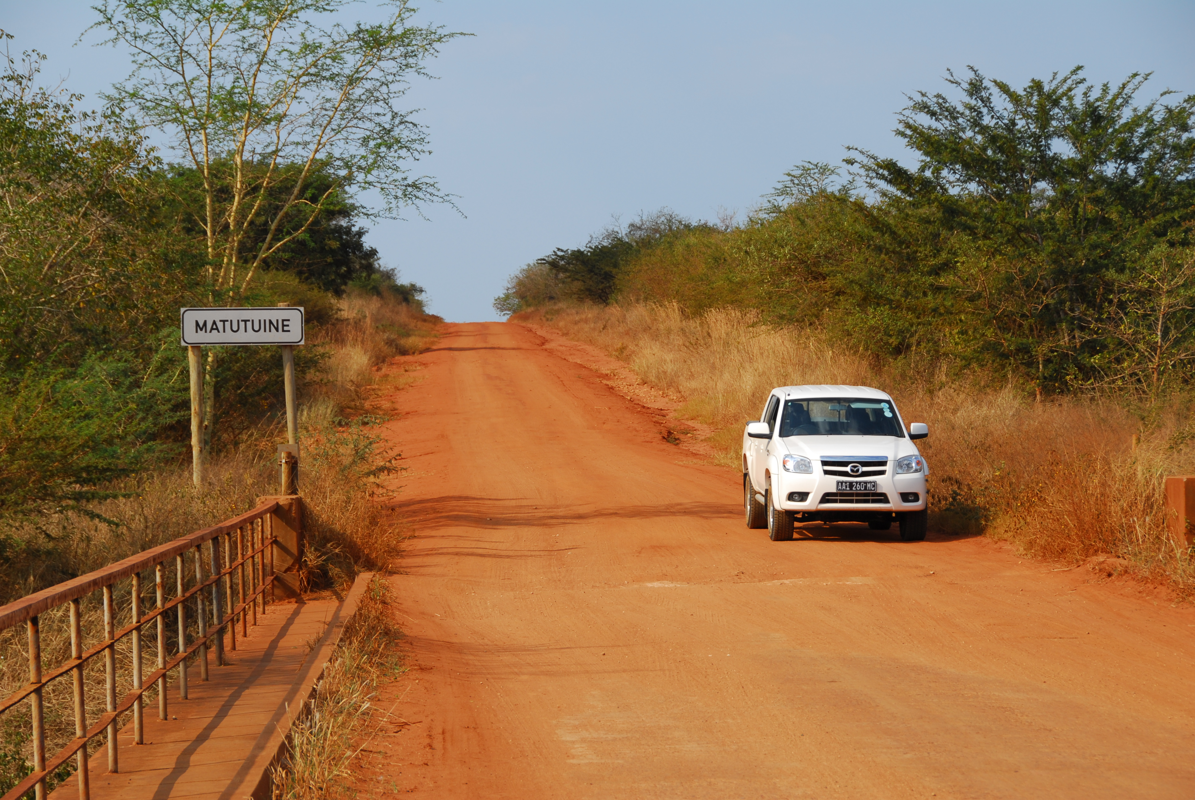 Road between Bela Vista and Boena, Maputo, Mozambique